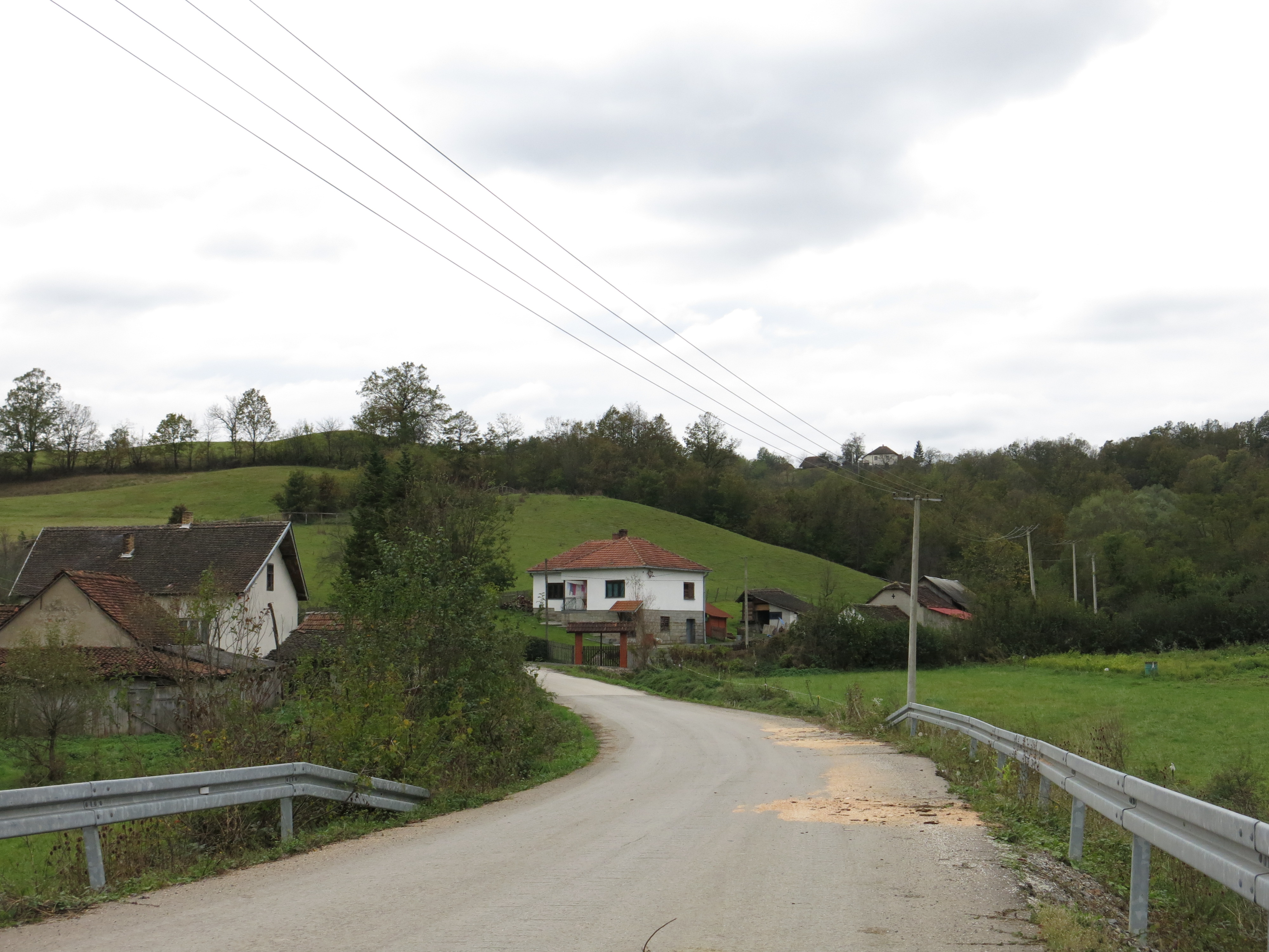 Davidovica, Street